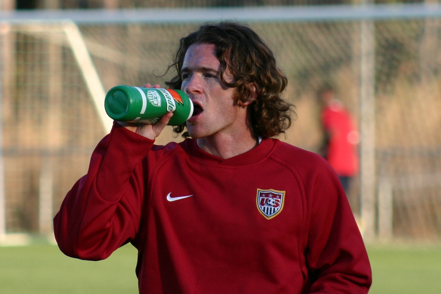 John O'Brien The US Men's National team practices at SAS Soccer Park in Cary, NC on April 9, 2006 ahead of their international friendly against Jamaica.